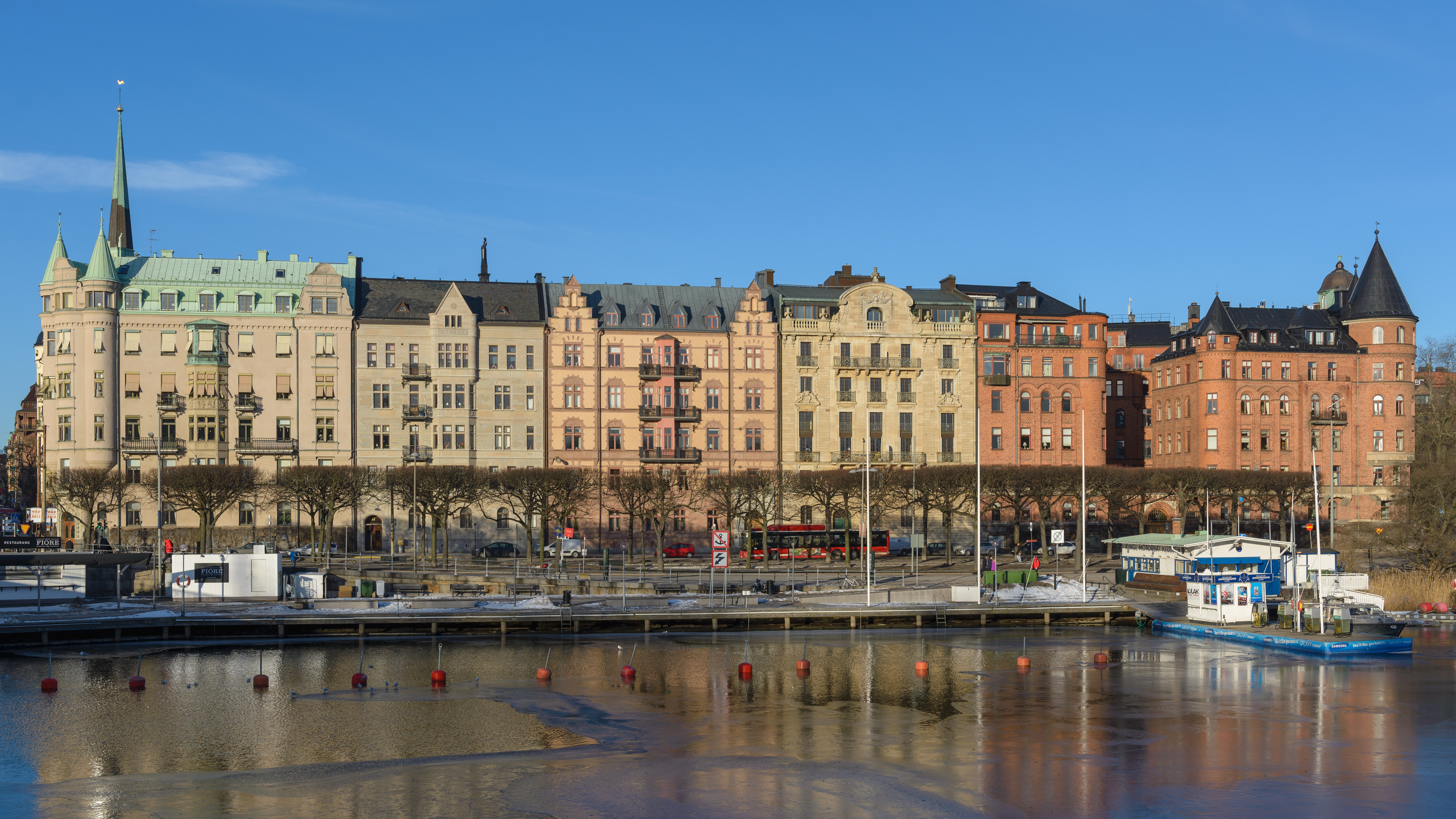 Strandvägen, Stockholm. From left to right: Strandvägen 49, built 1894-95. Architect: Sam Kjellberg. Strandvägen 51, built 1895-97. Architect: Sam Kjellberg. Strandvägen 53, built 1895-97. Architect: Sam Kjellberg. Strandvägen 55, built 1895–1899. Architect: Isak Gustaf Clason. Built as a private residence, rebuilt in the 1940s. Strandvägen 57, built 1895-1899. Architect: Ludwig Peterson